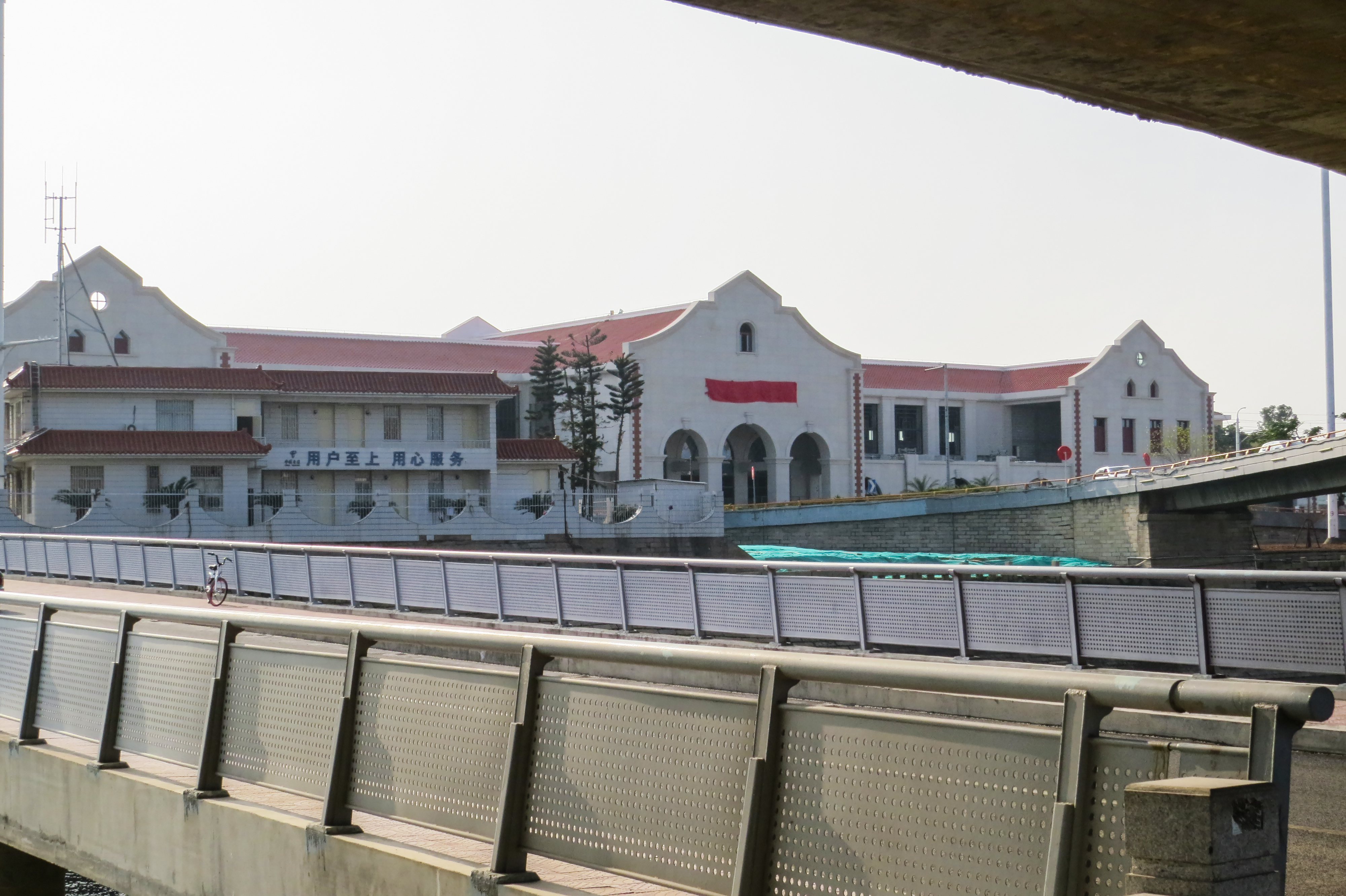 So difficult to reach this station. The access is not so easy before the metro opens...